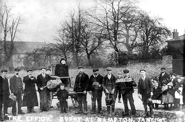 Ran-Tanning at Rampton, 1909